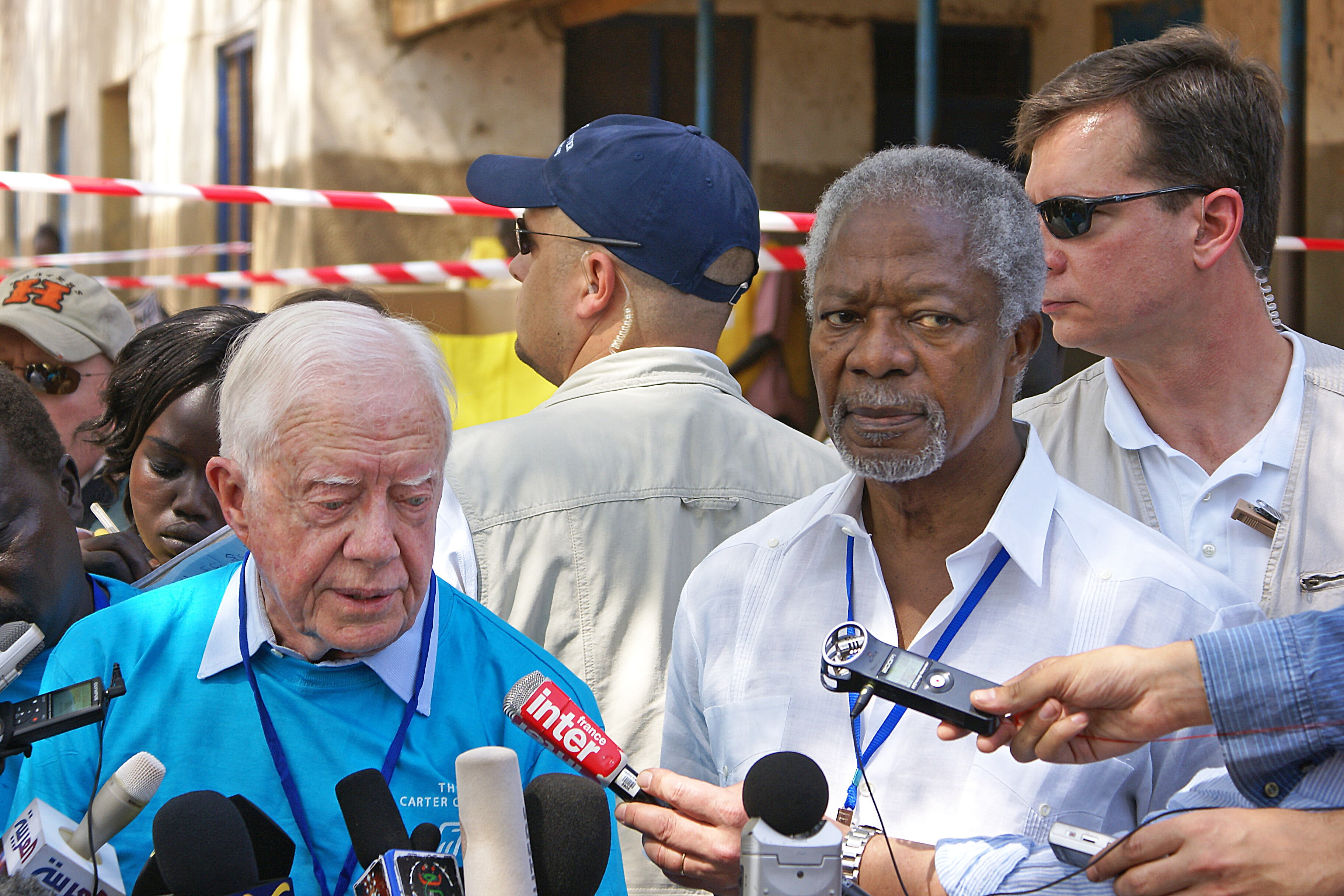 Interviewing Jimmy Carter and Kofi Annan, jan 9, 2011